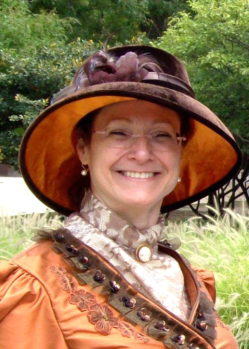 Jan Lisa Huttner celebrates Jane Addam’s 150th birthday in Jane Addams Park on the Chicago Lakefront. "Jane Addams" costume designed by Alex Meadows of Loyola University. Photo Credit: Richard Bayard Miller (9/6/10)